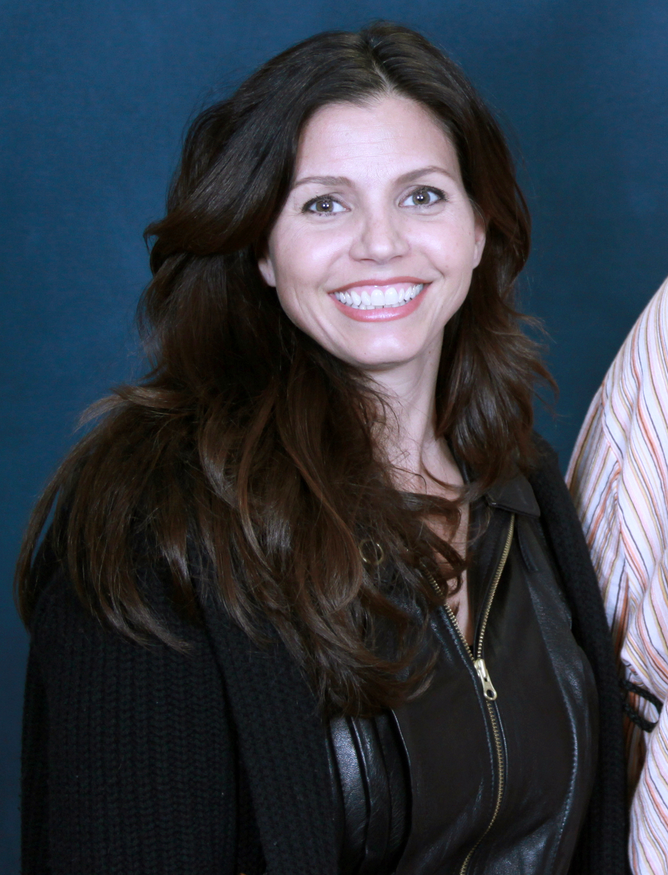 Actress Charisma Carpenter at Dallas Comic-Con 2010.